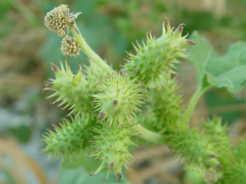 Description Xanthium strumarium, cocklebur. Date September 29, 2002 Location Wilbur Hot Spring, Colusa Co., CA, California Photographer Franco Folini